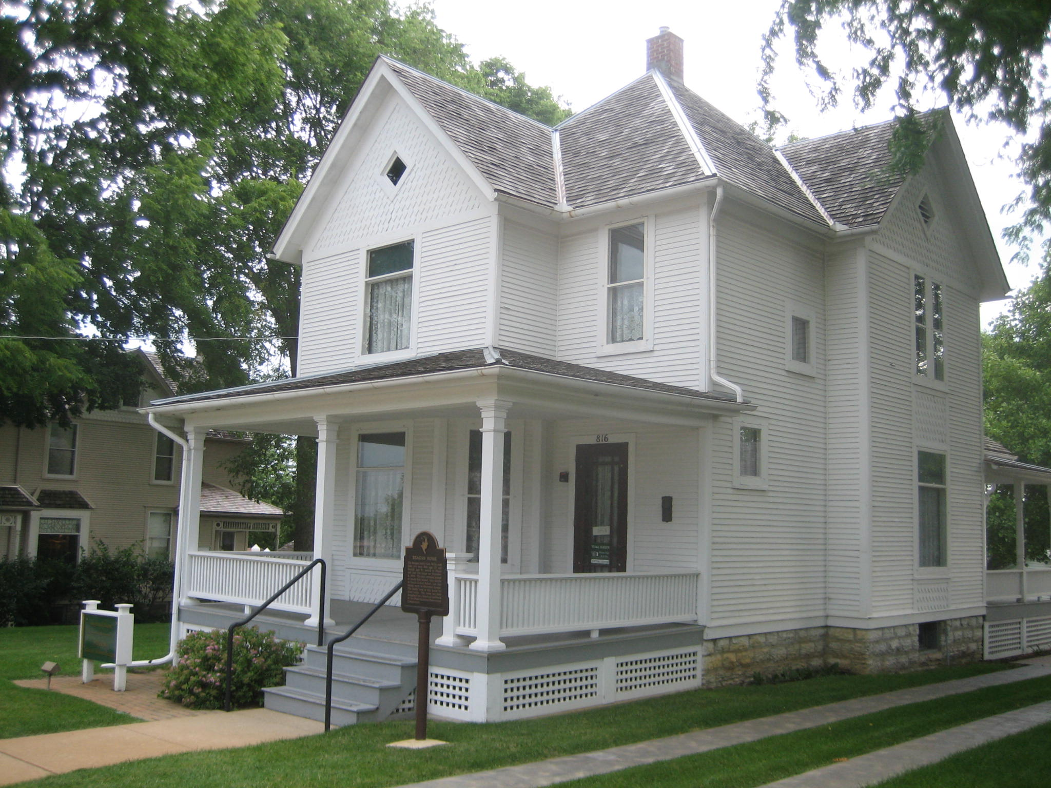 Ronald Reagan Boyhood Home National Historic Site, Dixon, Illinois, USA. U.S. National Register of Historic Places.